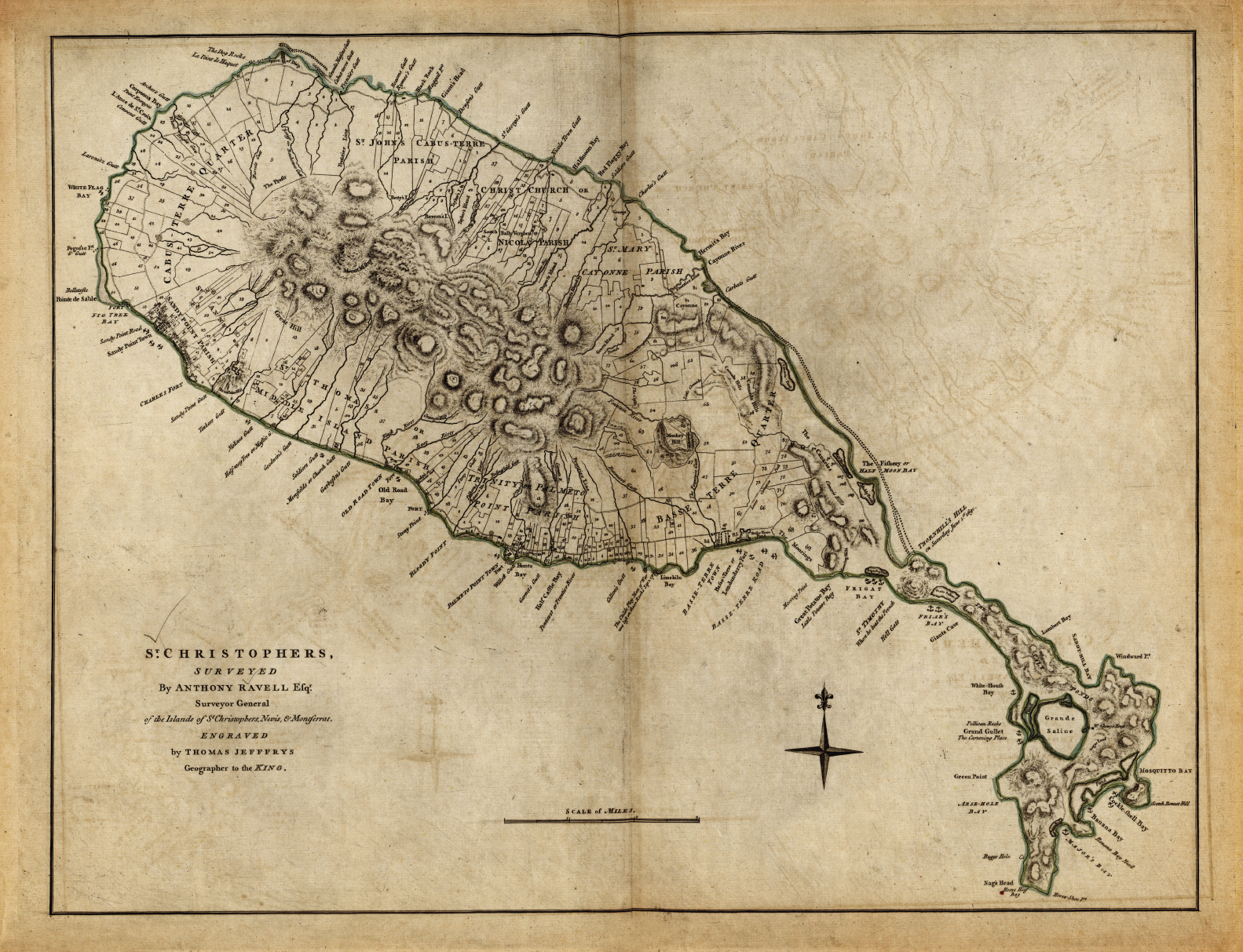 St. Christopher (St. Kitts), Caribbean, historical map